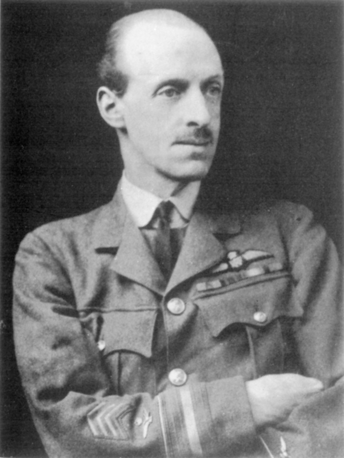 Photograph of Major-General Frederick Sykes in the initial Royal Air Force uniform design. This uniform was introduced in April 1918 and phased out in August 1919. The source (see below) describes the image as "a First World War portrait" dating it to some time in the period April to November 1918.